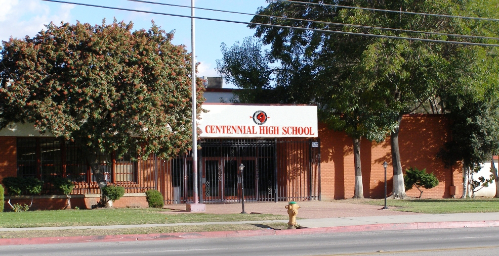 Centennial High School Photo Taken By Alumni Wayne Ware Class Of 1975, On 12/17/06.